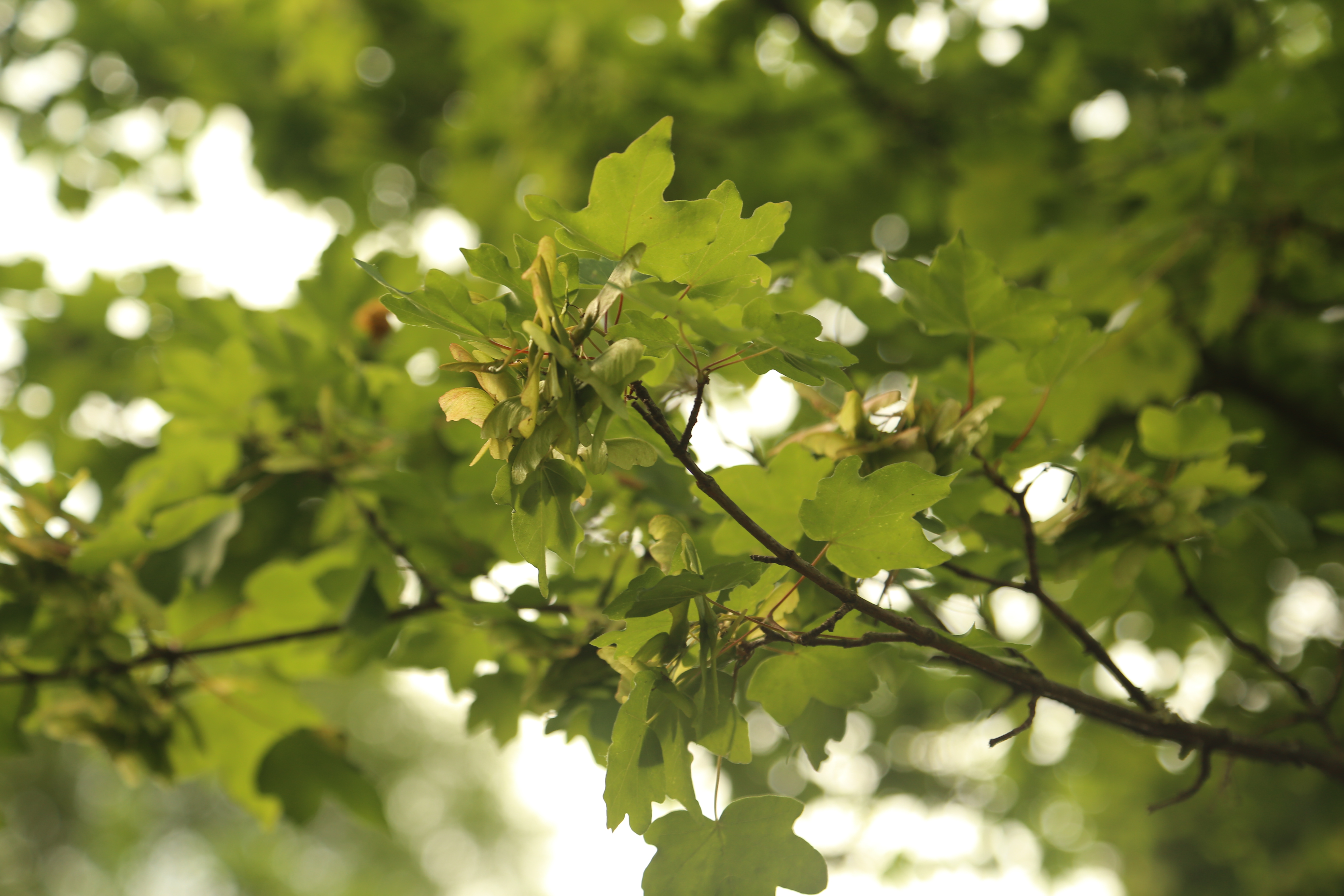 acer campestre leaves